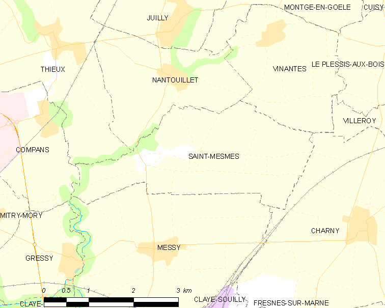 Map of French municipality Saint-Mesmes